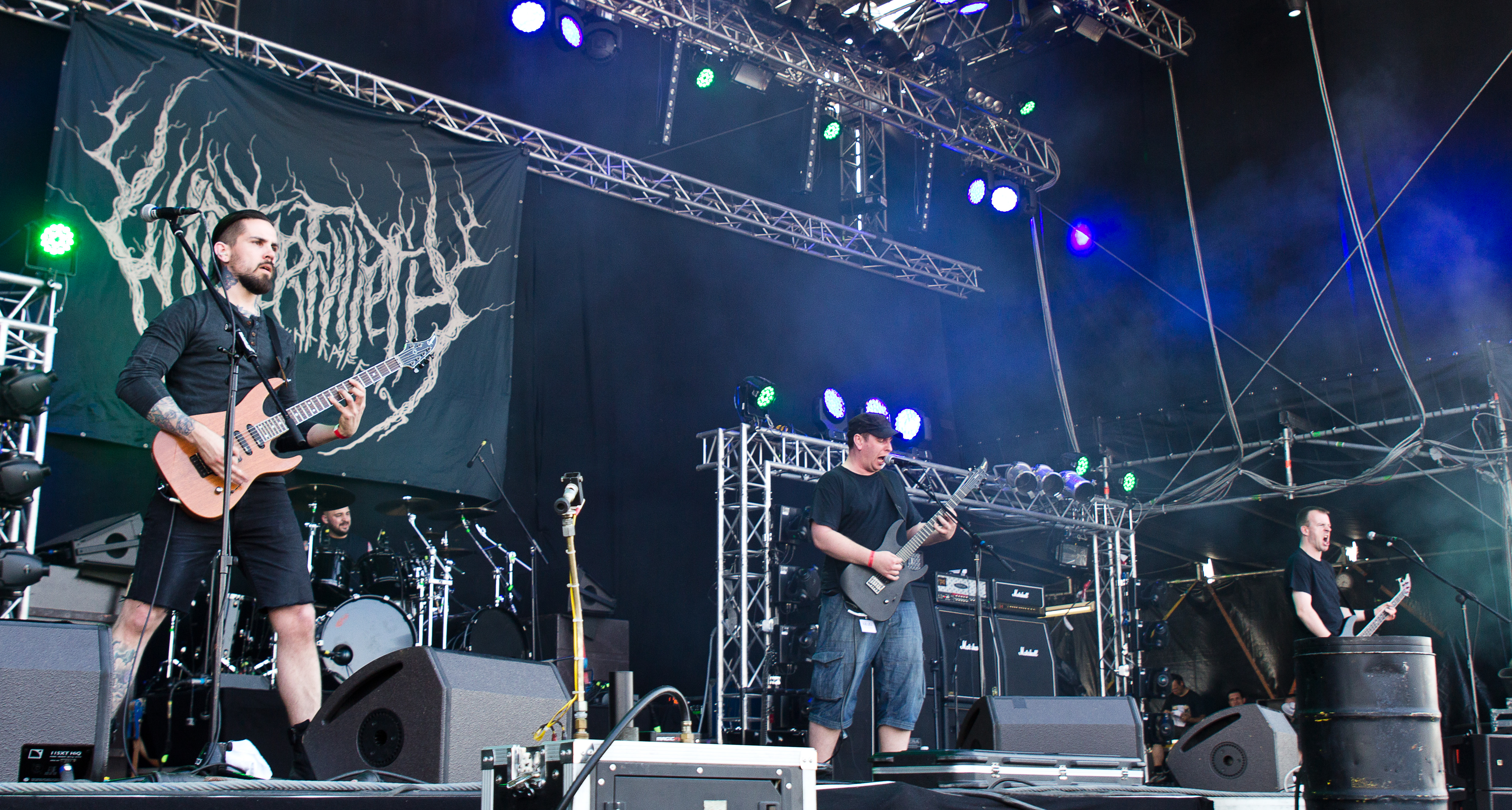 The English black metal band Winterfylleth at the Party.San Open Air 2015 in Obermehler-Schlotheim/Germany.